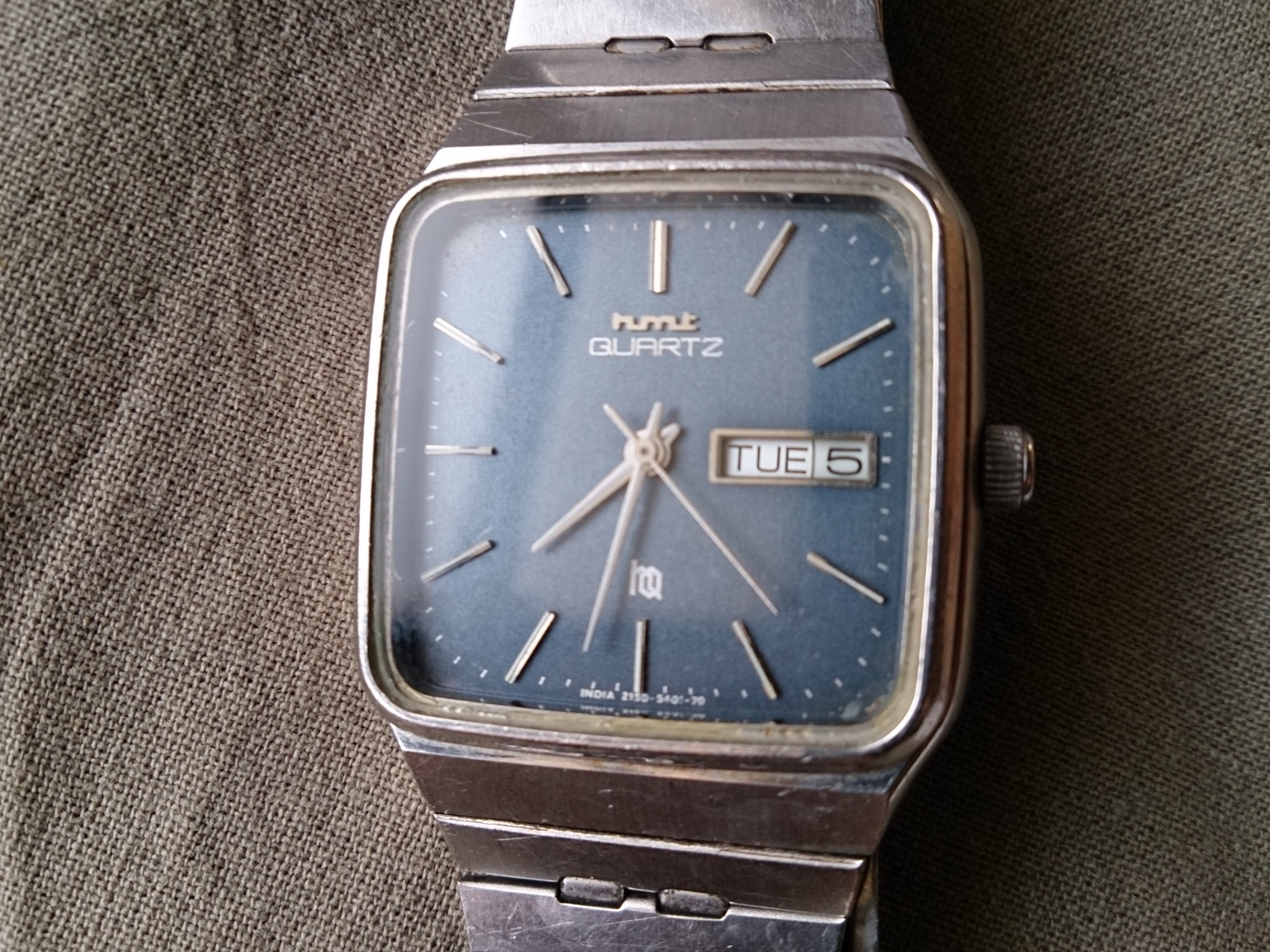 A photograph of quartz wrist watch by HMT.